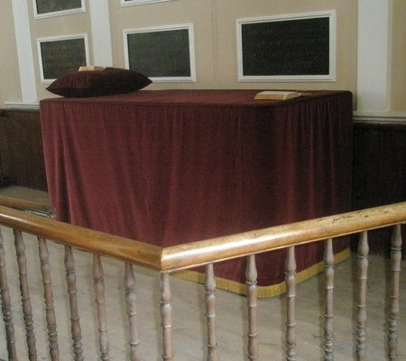 A simple altar within St John's Chapel, Chichester